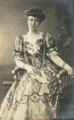 Princess Elisabeth of Anhalt (1857-1933)